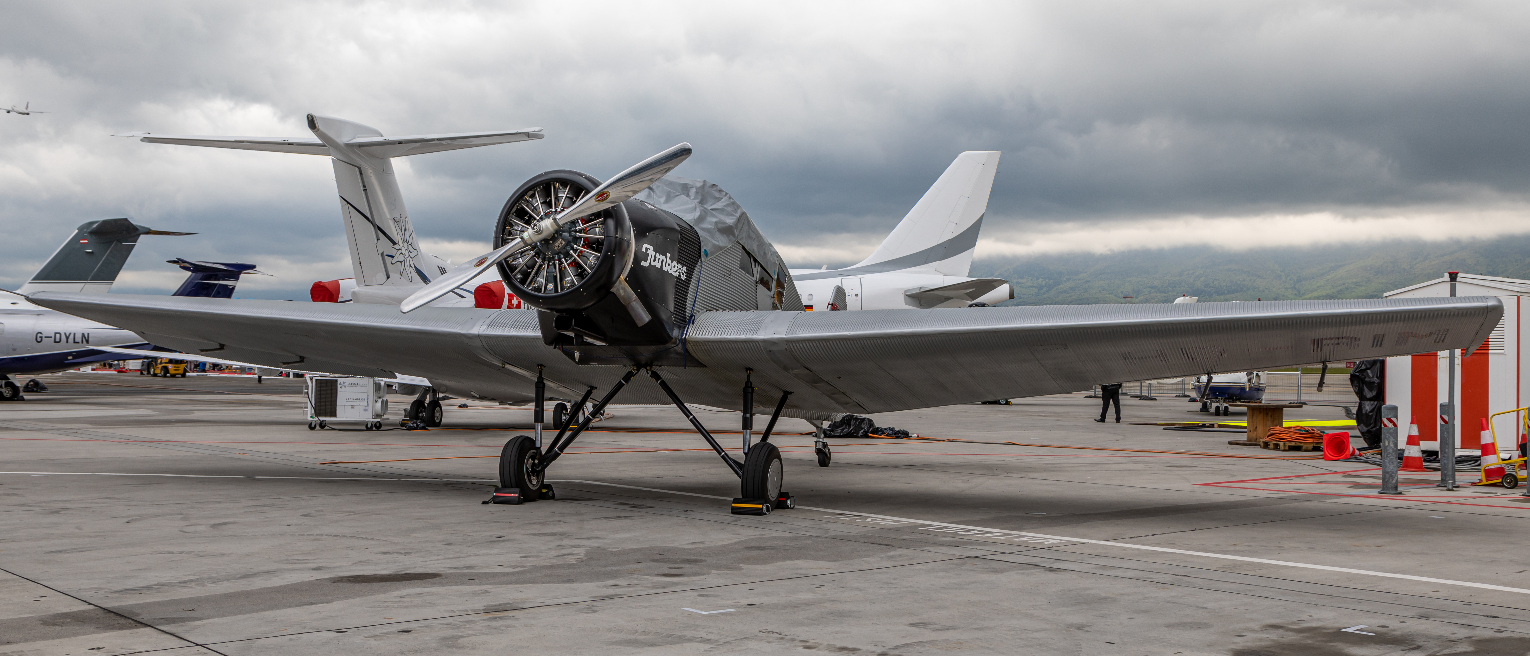 Newly built Junkers F13, EBACE 2019, Palexpo, Switzerland